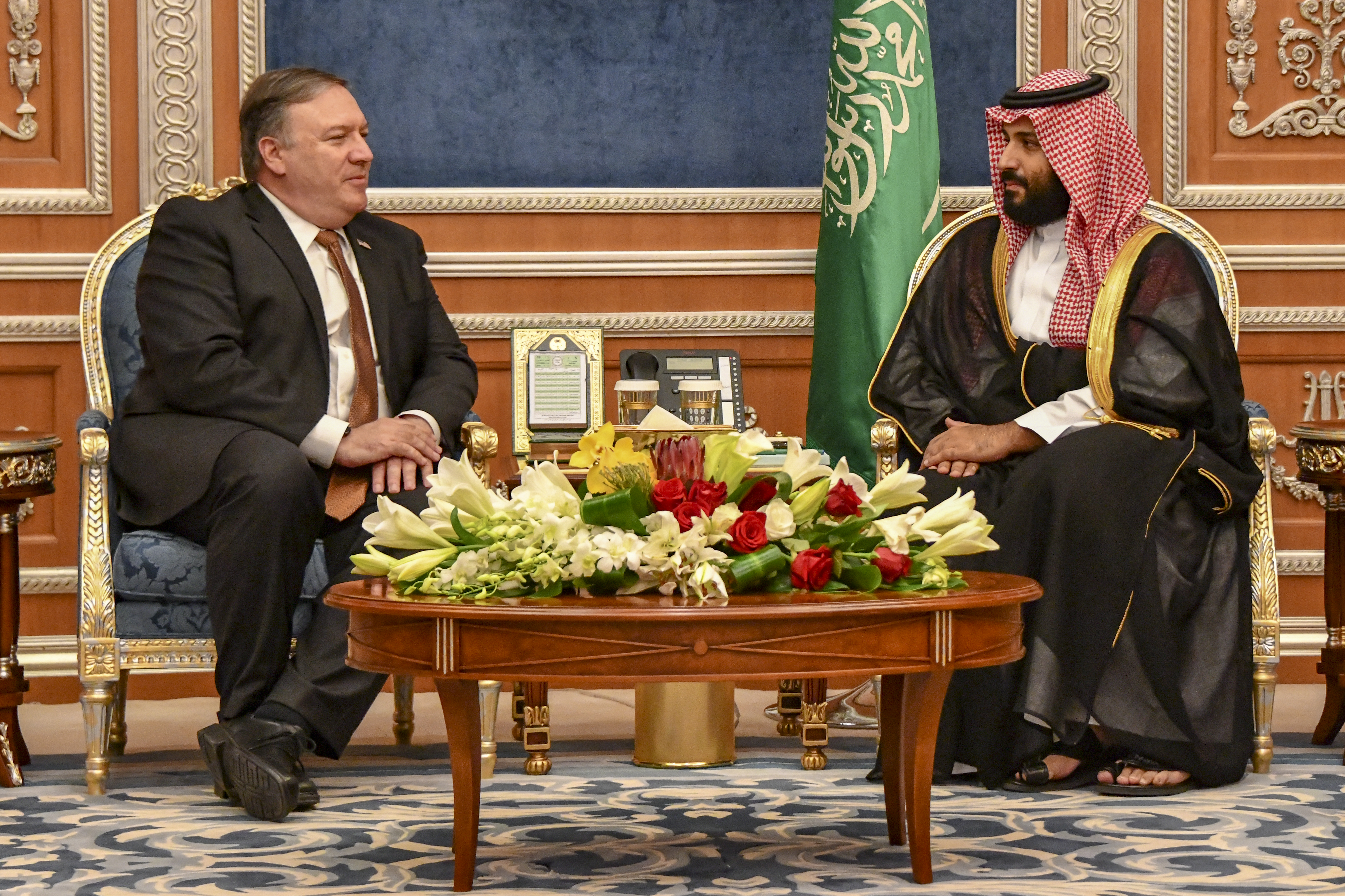 Secretary of State Michael R. Pompeo meets with Saudi Crown Prince Mohammed bin Salman, in Riyadh, Saudi Arabia, on October 16, 2018. [State Department photo/Public Domain]